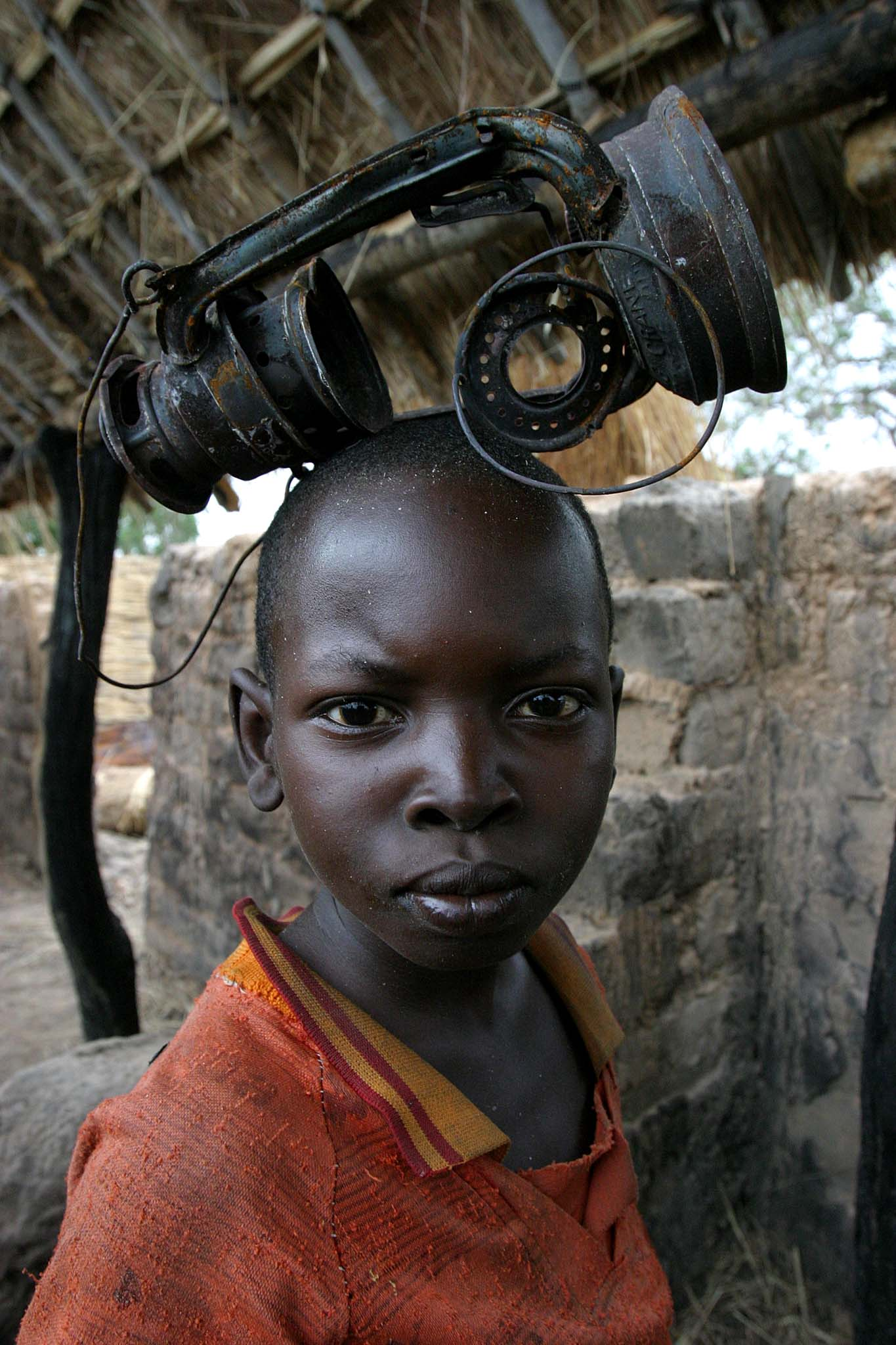 A boy playing with a burnt lamp — in the city of Birao, Central African Republic.The town was almost completely burnt down in March 2007 during fighting between rebels and government troops in the Central African Republic Bush War.